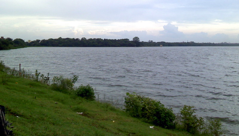 Ambazari lake at Nagpur